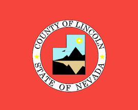 Flag of Lincoln County, Nevada